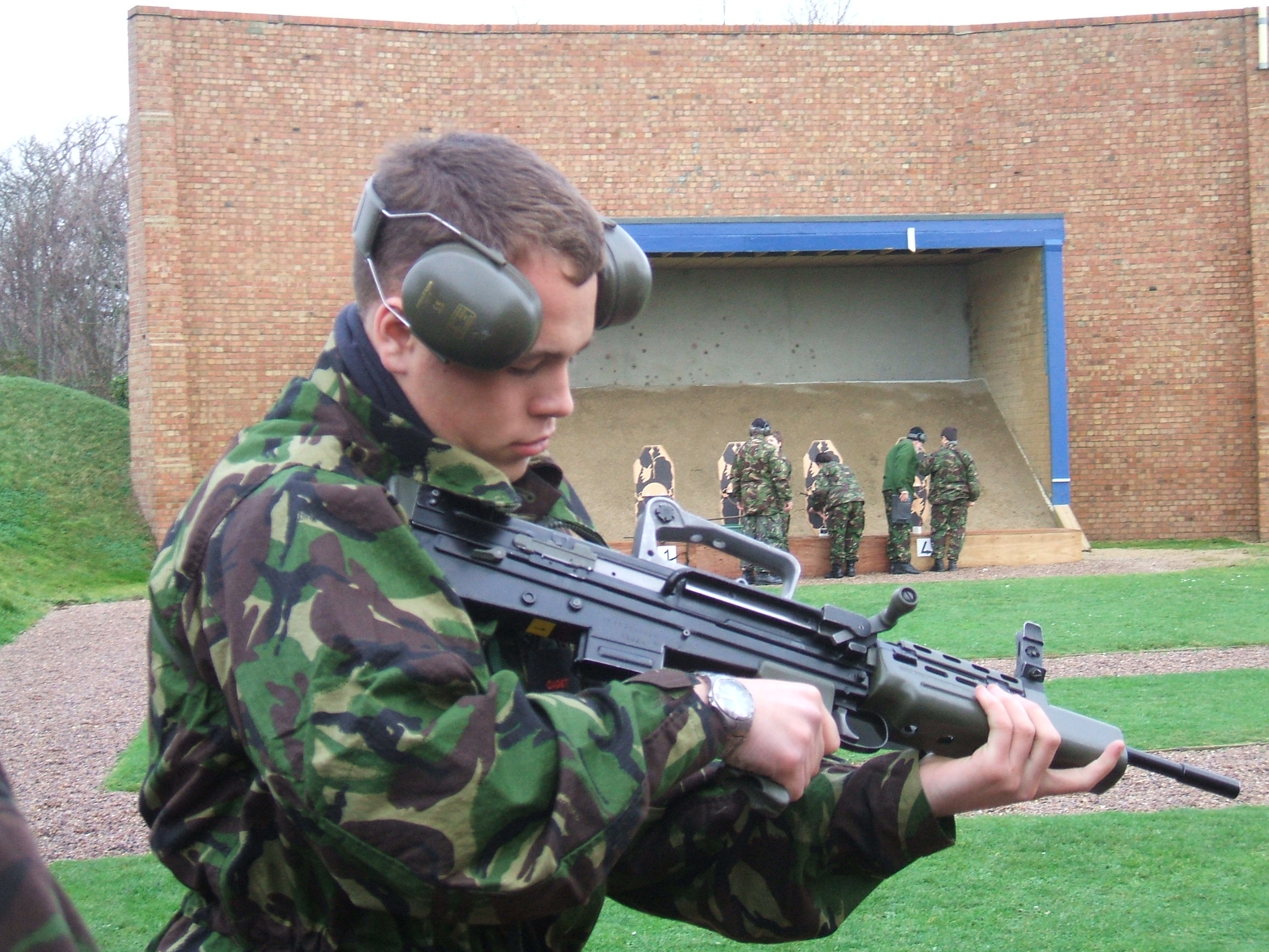 Petty Officer Cadet (SCC) A Nolton at Tipner range complex near HMS Excellent with a L98A1 Cadet GP rifle in January 2007 .